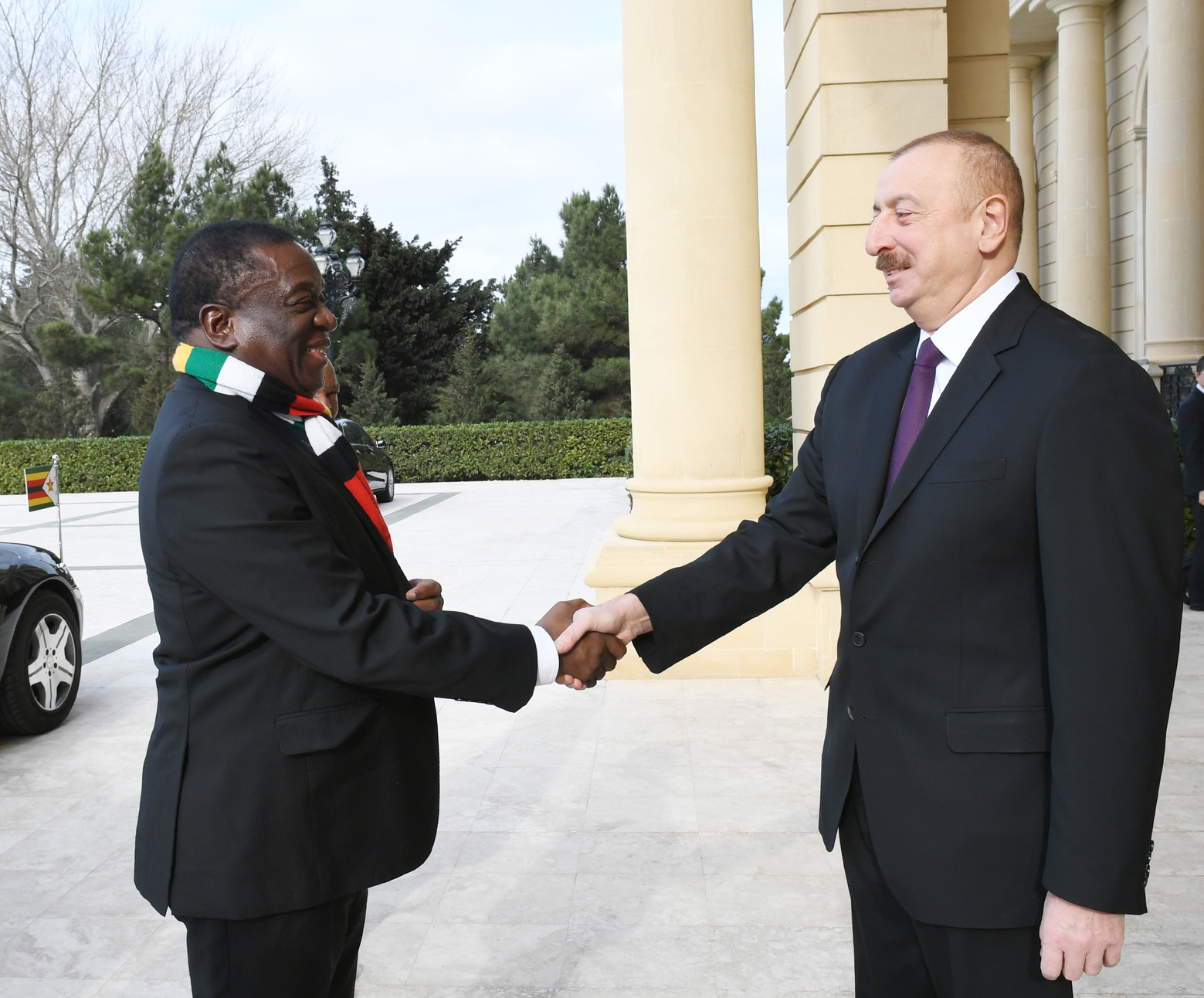 Ilham Aliyev met with Zimbabwe President Emmerson Mnangagwa